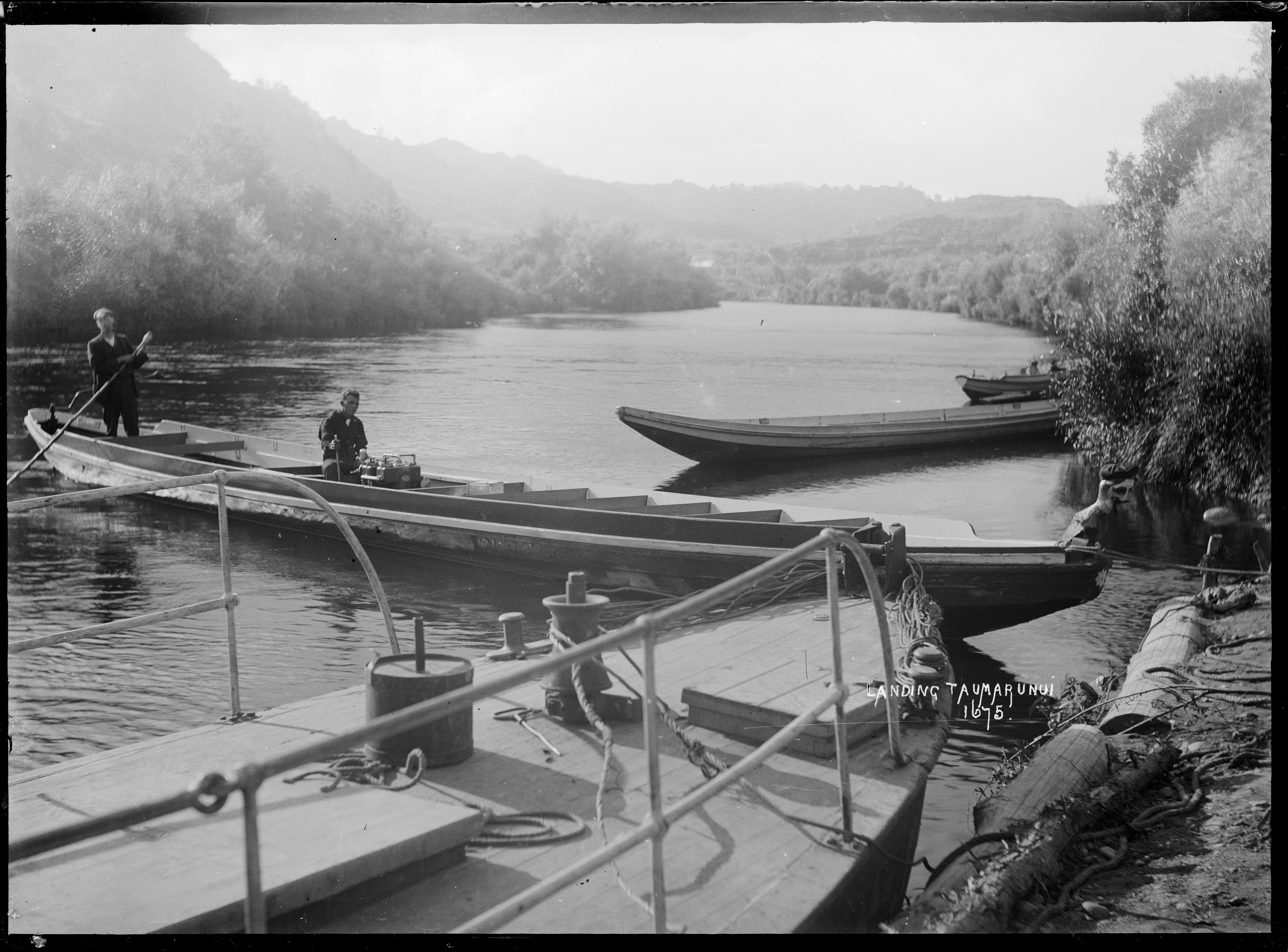 View of a landing on the Whanganui River at Taumarunui, with two motorised canoes alongside the jetty. Photograph taken by William A Price between 1900 and 1930. Inscriptions: Inscribed - Photographer's title on negative -bottom right: Landing. Taumarunui. [No.] 1675. Quantity: 1 b&w original negative(s). Physical Description: Dry plate glass negative A landing on the Whanganui River at Taumarunui. Price, William Archer, 1866-1948 :Collection of post card negatives. Ref: 1/2-000793-G. Alexander Turnbull Library, Wellington, New Zealand.